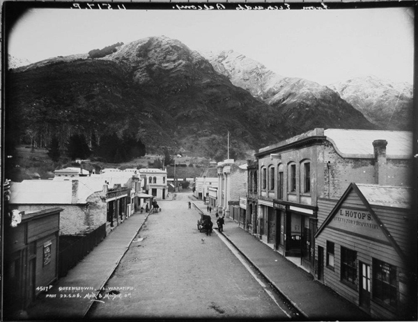 1906 photo of Rees Street, looking towards Ben Lomond, showing Hotop's Dispensary, which is now Wilkinsons Pharmacy.